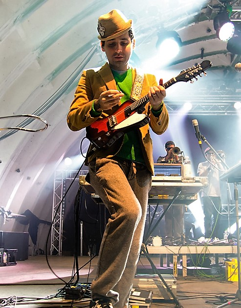 Visitante of the Puerto Rican band Calle 13 performing at Fusion Festival on June 1, 2011.